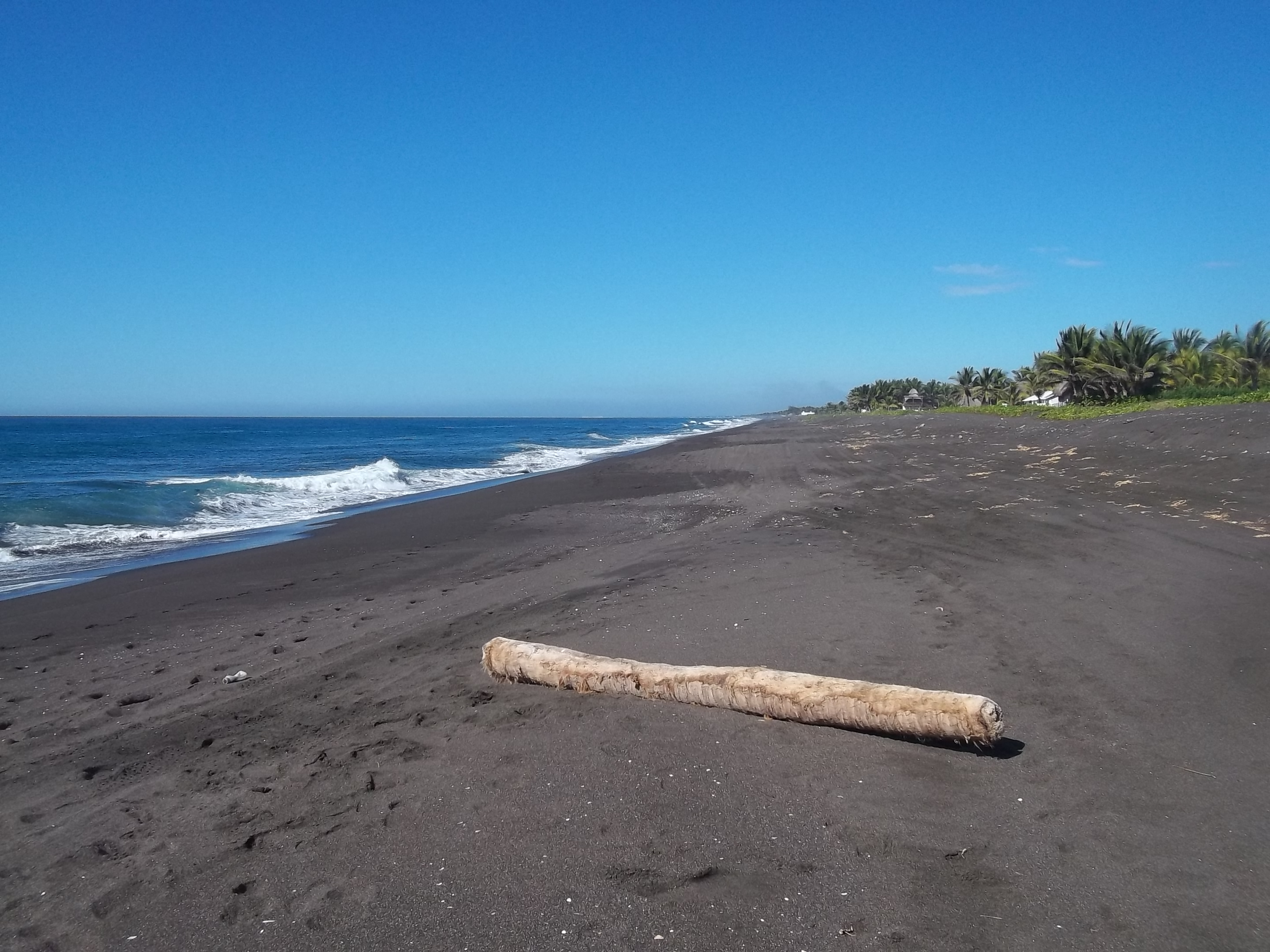 El Garitón, near Monterrico, in Taxisco municipality, Santa Rosa Department, Guatemala.